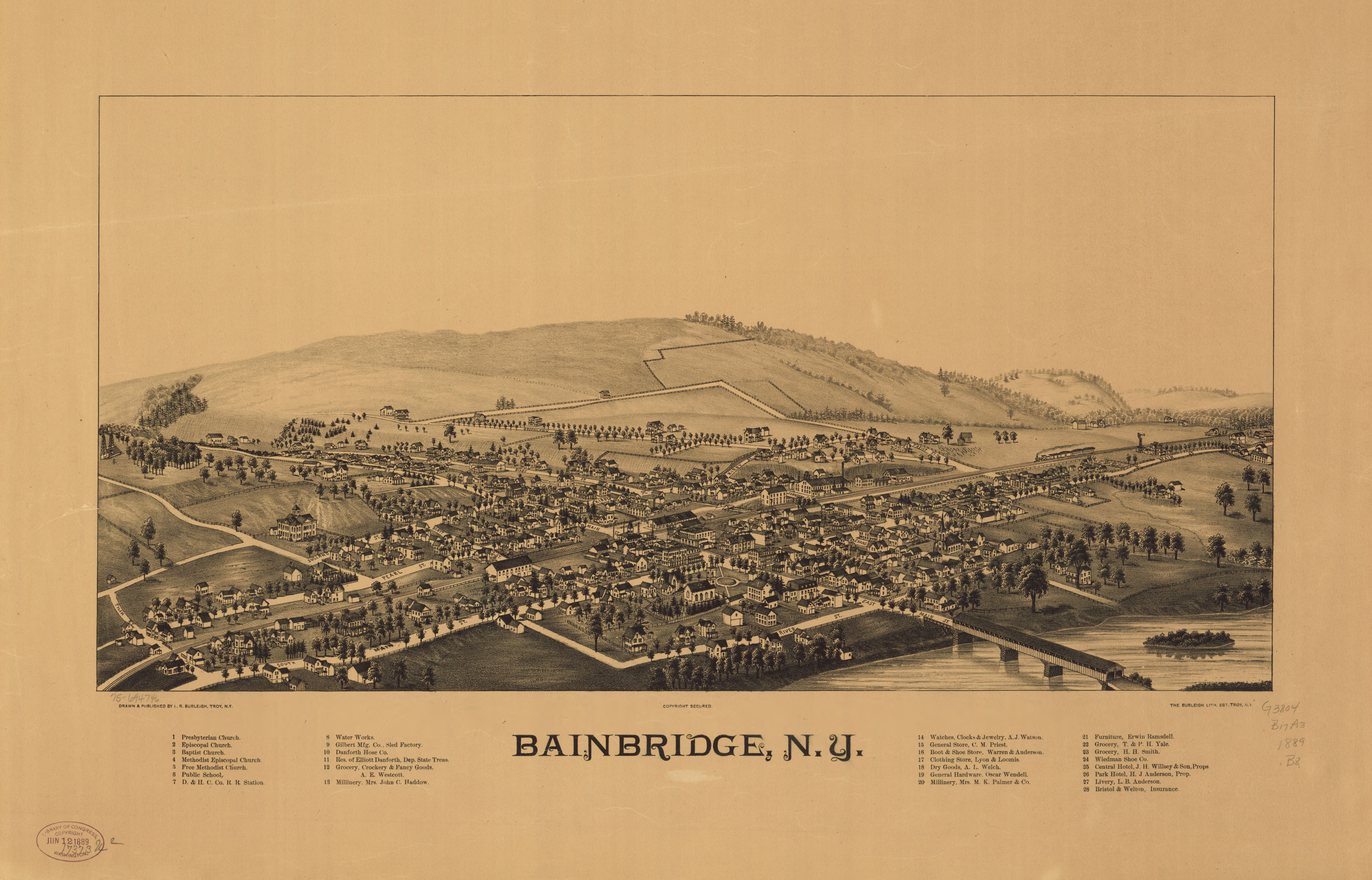 Perspective map not drawn to scale. Bird's-eye-view. LC Panoramic maps (2nd ed.), 537 Available also through the Library of Congress Web site as a raster image. Indexed for points of interest. AACR2